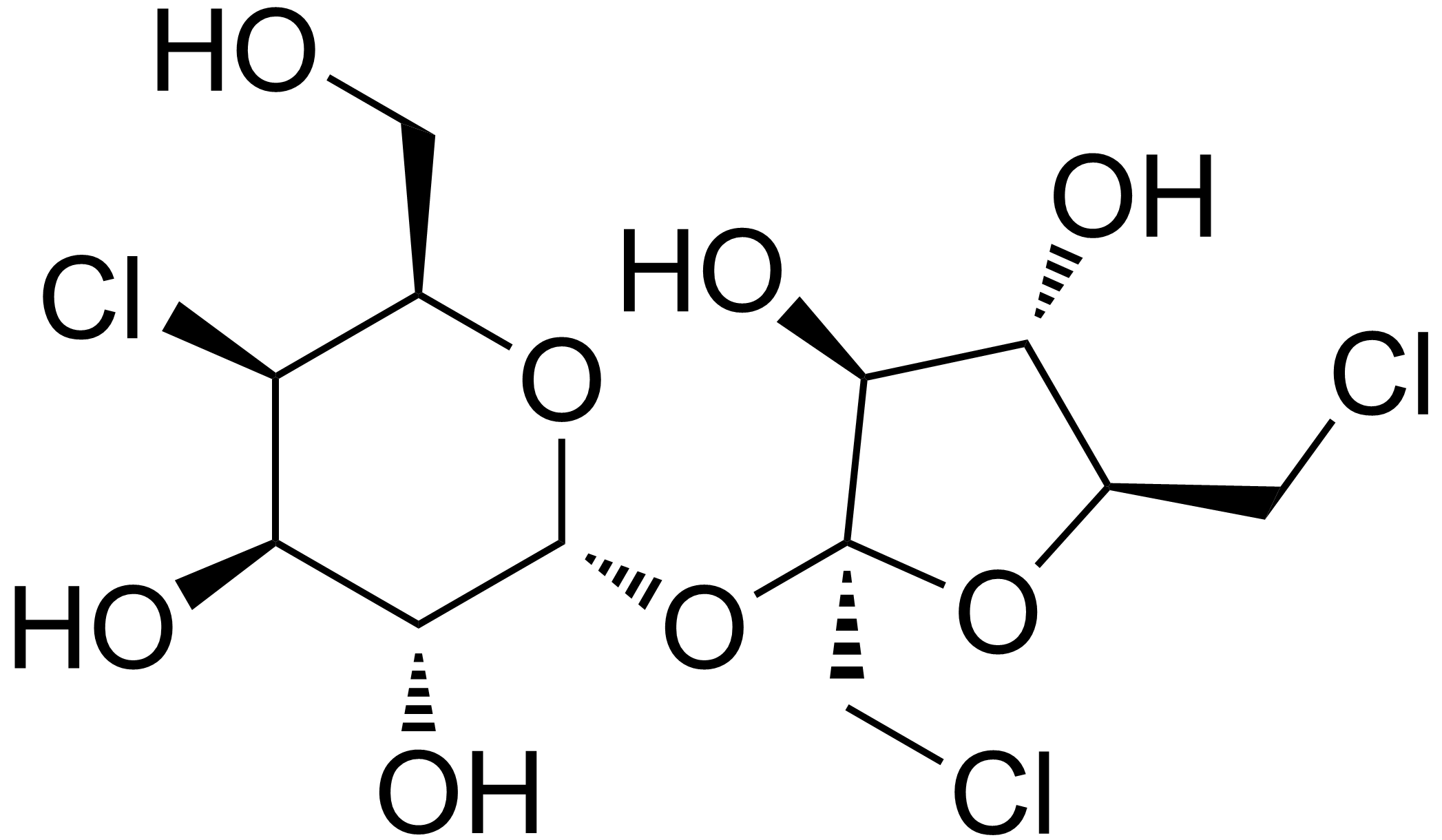 Chemical structure of sucralose created with ChemDraw.